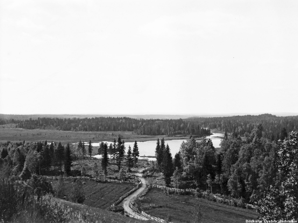 View from Bocksboda, outside Örebro, Sweden